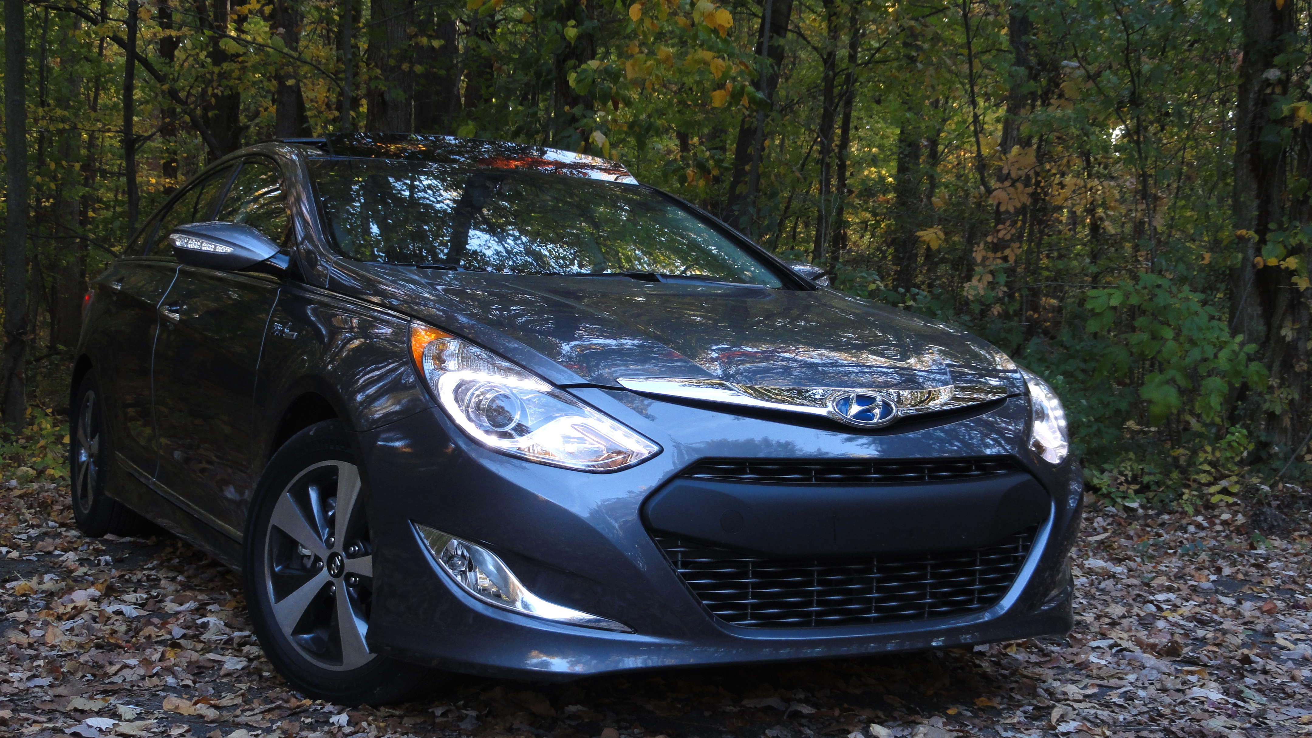 2011 YF Hyundai Sonata Hybrid front quarter shot. Findlay State Park, Wellington, Ohio.